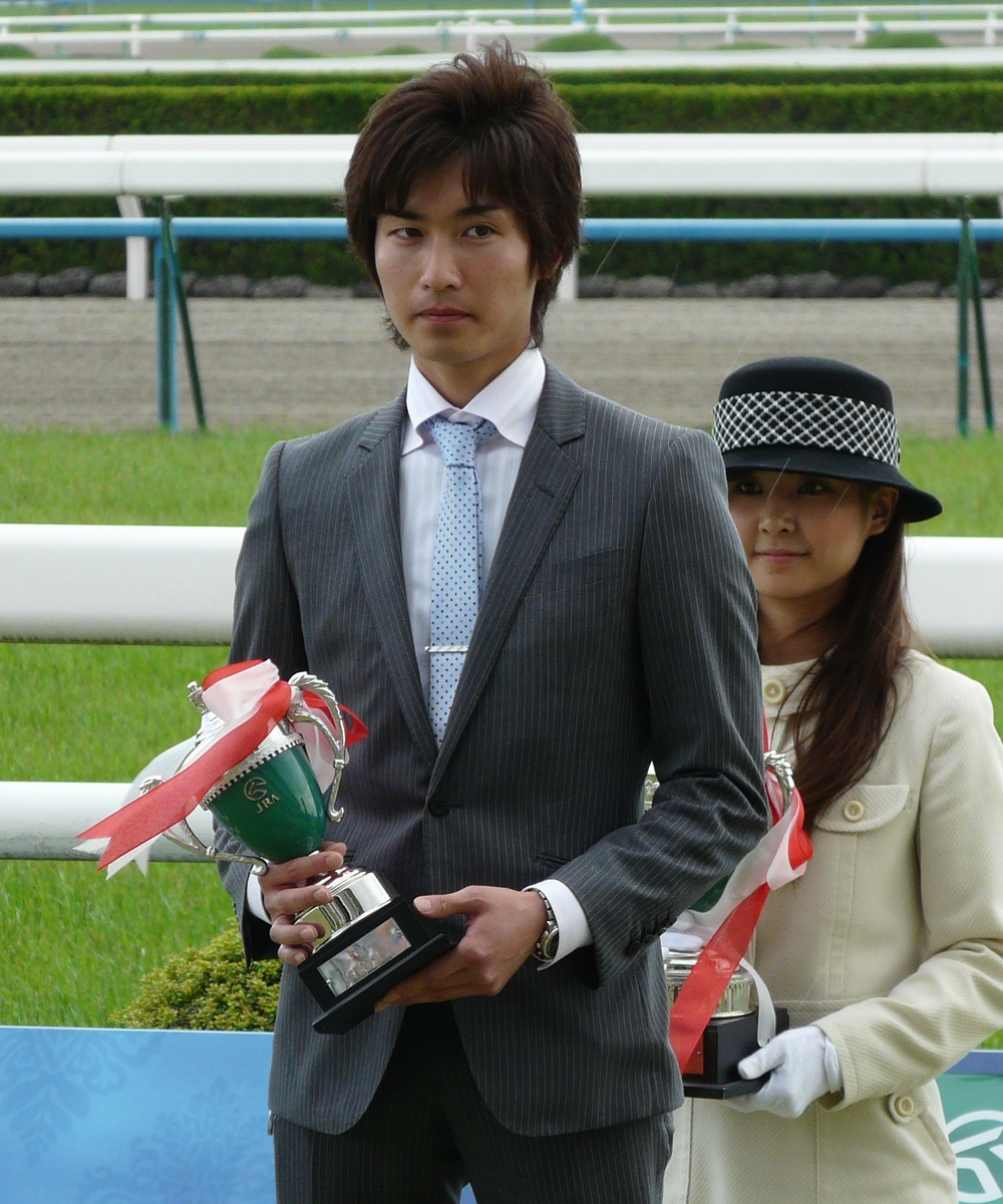 Bunshi-Funabiki20110514